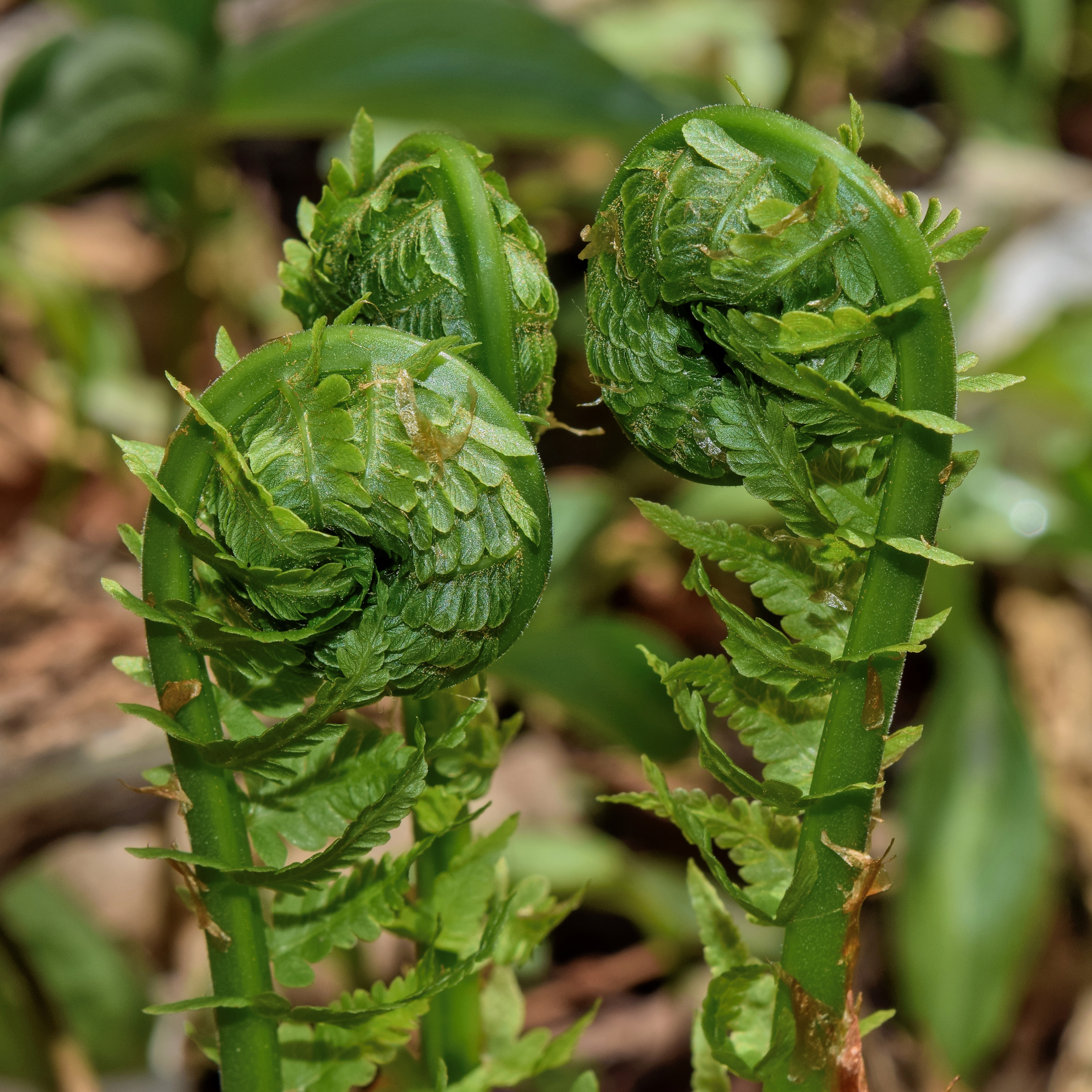 Ostrich fern (Matteuccia struthiopteris) fiddleheads.